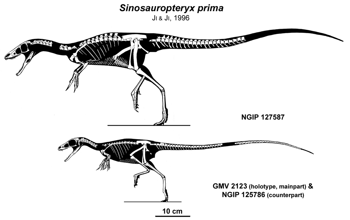 Skeletal reconstruction of Sinosauropteryx prima.